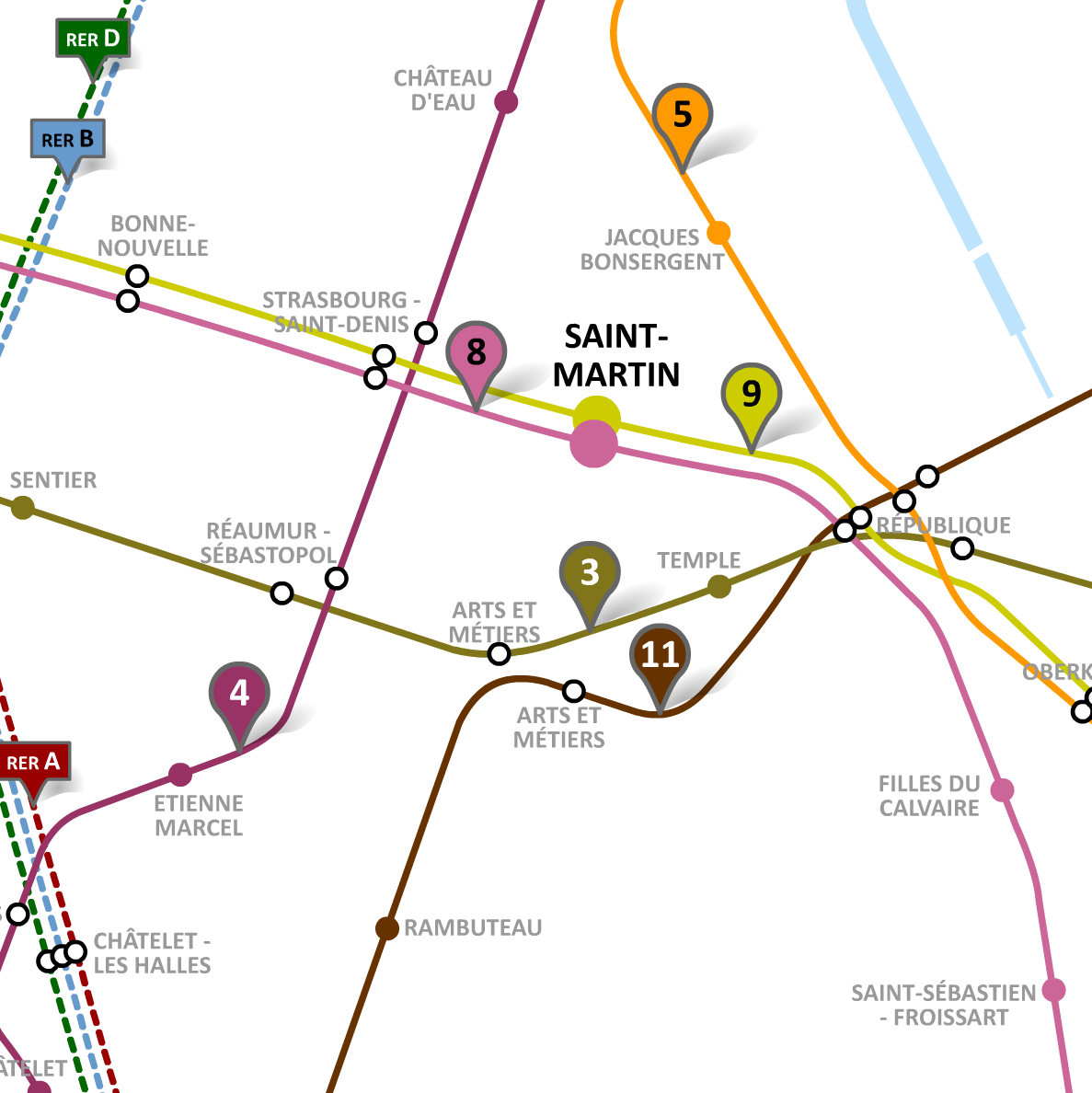 Extract from Image:Paris Metro map.gif, idea from Image:Haxo (Paris Metro).png by User:Superbfc. en: Locations of Saint Martin Paris metro ghost station. fr: Localisation de la station fantôme du métro de Paris Saint Martin.